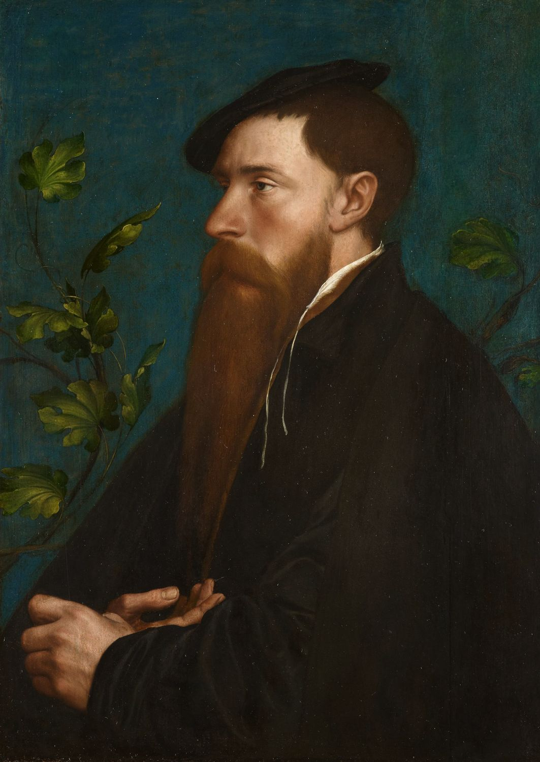 Portrait of William Reskimer. oil and tempera on oak, 46.4 × 33.7 cm, Royal Collection, Windsor Castle. The preparatory drawing for this portrait is inscribed, by a later hand than Holbein's, "Reskemeer a Cornish Gent". Since the portrait was once owned by family connections, it has been deduced that the sitter was William Reskimer, sometime page and gentleman usher to the chamber of Henry VIII and keeper of the Cornish ports. The work has been dated to the early part of Holbein's second stay in England, when he was still painting vines and fig leaves in the background of his portraits (Susan Foister, Holbein in England, London: Tate, 2006, ISBN 1854376454, p. 42.)